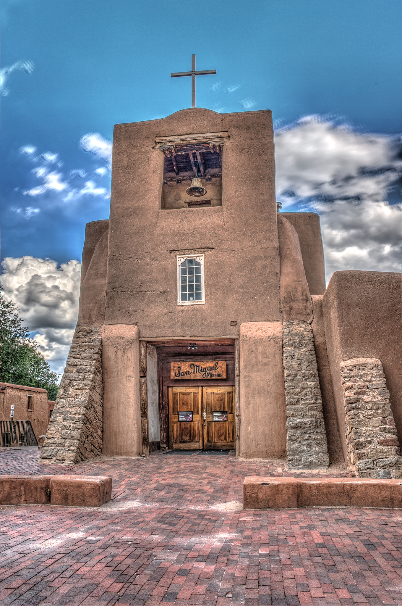 San Miguel Chapel; built in 1610